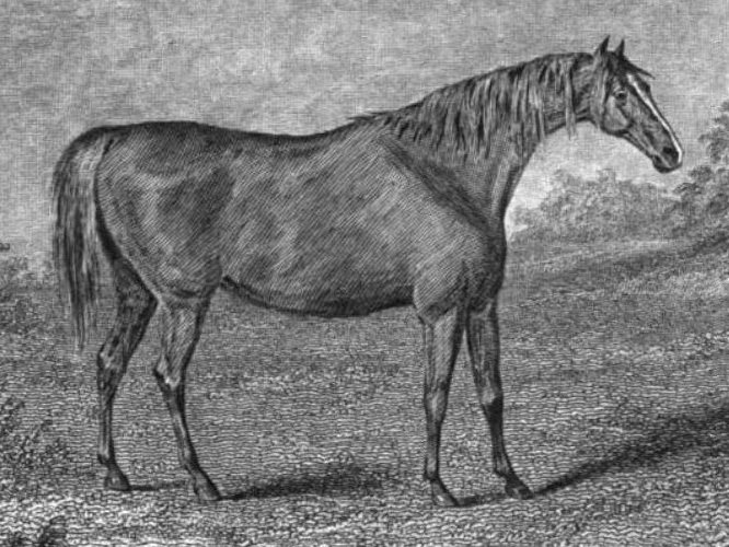 Medora, winner of 1814 Epsom Oaks.